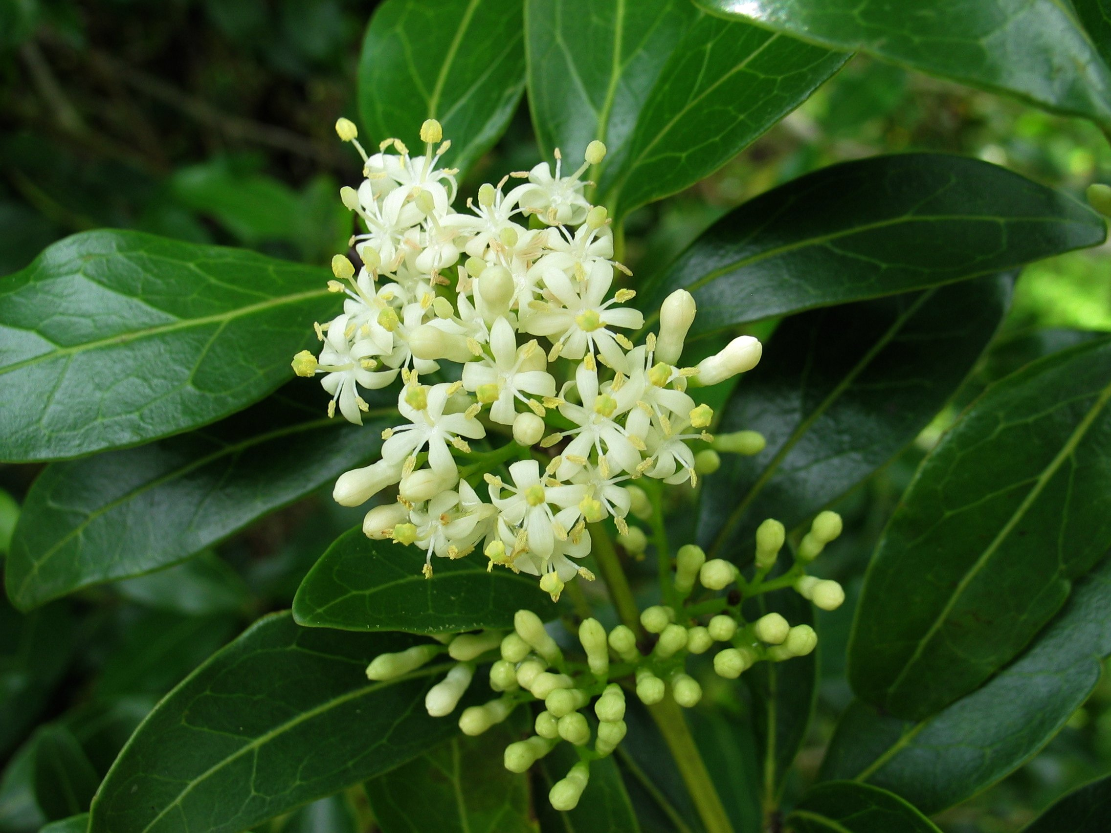 Alaheʻe or Walaheʻe [syn. Canthium odoratum] Rubiaceae Indigenous to the Hawaiian Islands Oʻahu (Cultivated) Fragrant flowers of alaheʻe Reportedly a dark brown or black dye was produced from the leaves of alaheʻe by early Hawaiians. Spears, from 6 to 13 feet long, were fashioned for capturing heʻe (octopus) and were often made from alaheʻe. The hardwood was used for farming tools such as ʻōʻō, fishhooks, shark hooks (makau manō) with bone points, short spears (ʻo), and dip nets for fish and crabs. The wood was also made into adze blades for cutting softer wood such as wiliwili and kukui. Medicinally, the leaves and "the white skin of the stem" are prepared by cooking and the bitter medicine is drunk to cleanse the blood. NPH00005